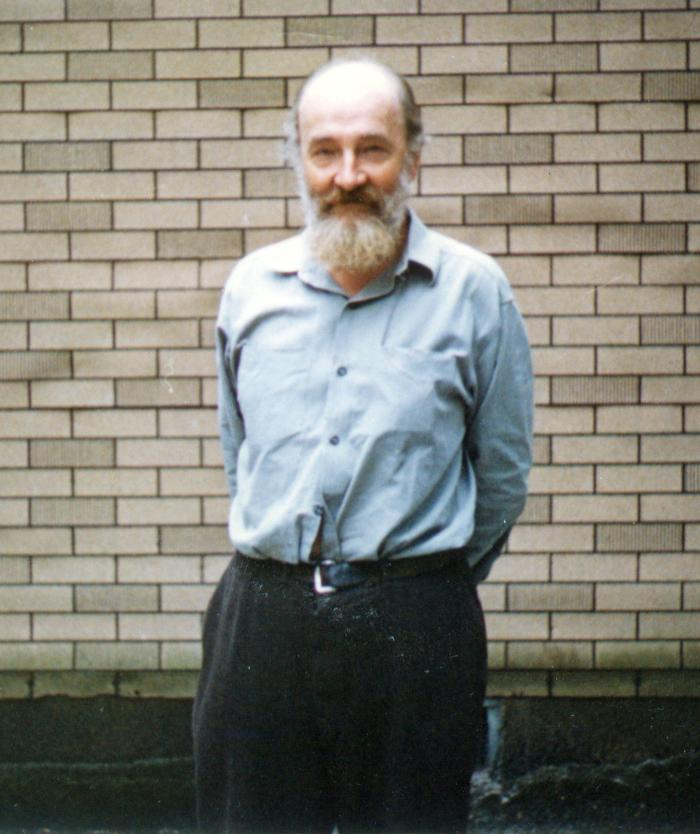 Gleb Botkin "This is a photo I took of Gleb Botkin taken in 1959 or 1960. I visited him and his wife Nadine at their little home in the Russian colony of Oceanside, New Jersey. [sic]"[1]